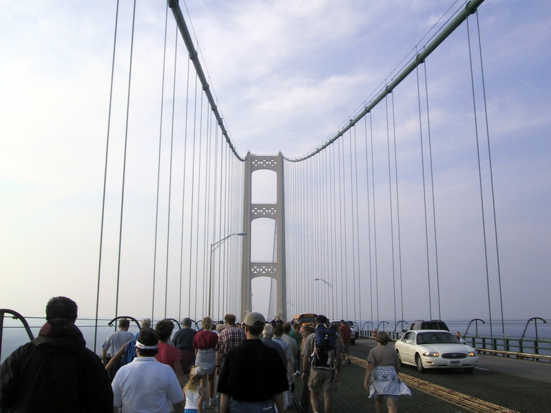 2004 Mackinac Bridge Walk Taken by Chuck Carroll, on September 6, 2004